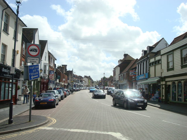 High Street, West Malling